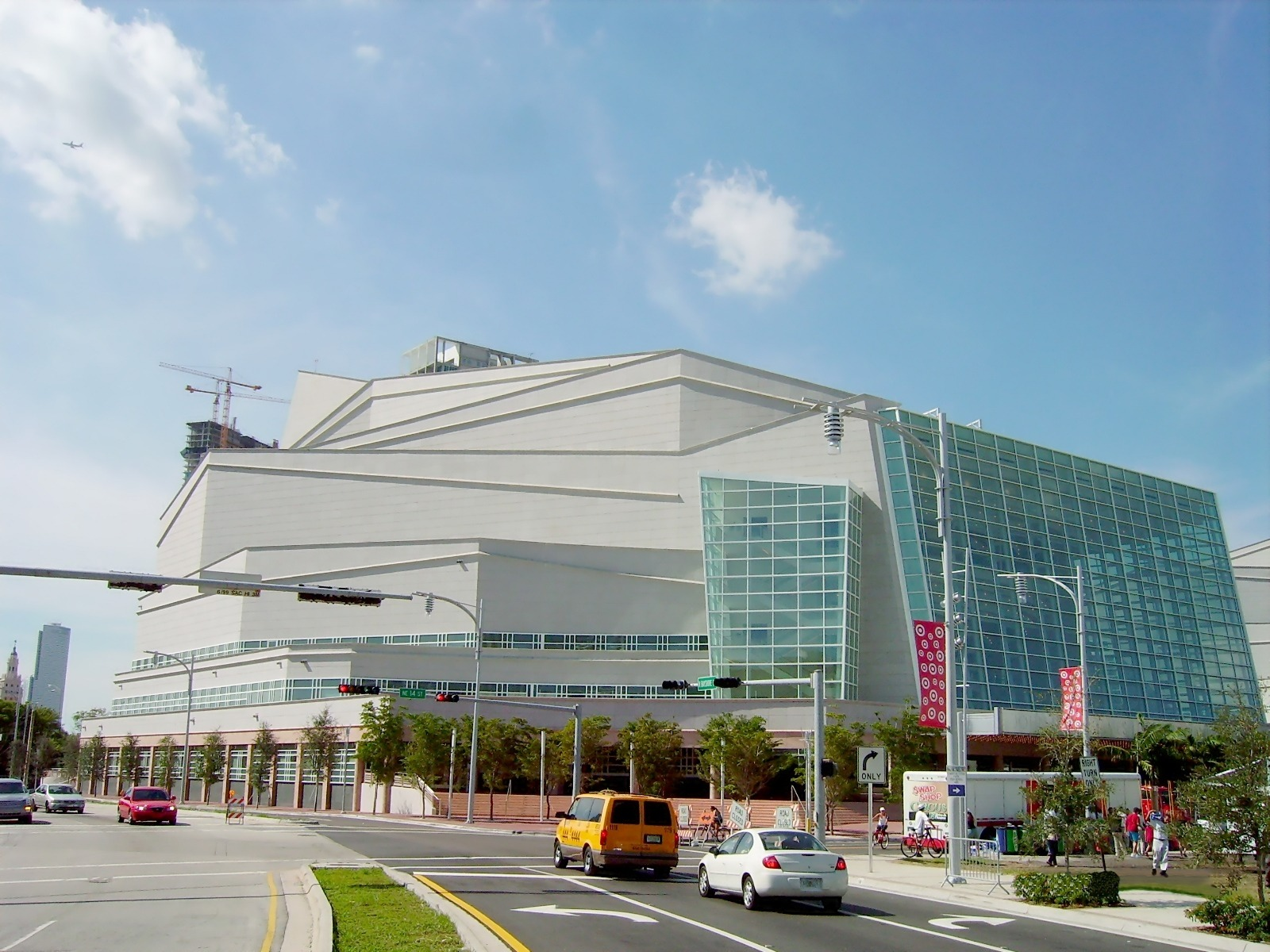 Knight Concert Hall in downtown Miami, FL